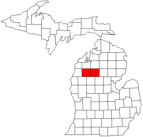 Map of Michigan highlighting the Cadillac Micropolitan Statistical Area. Created with the GIMP. Made by User:Acntx.